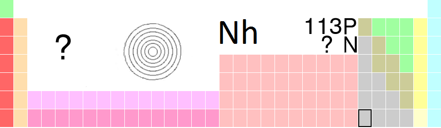 Nihonium on the periodic table